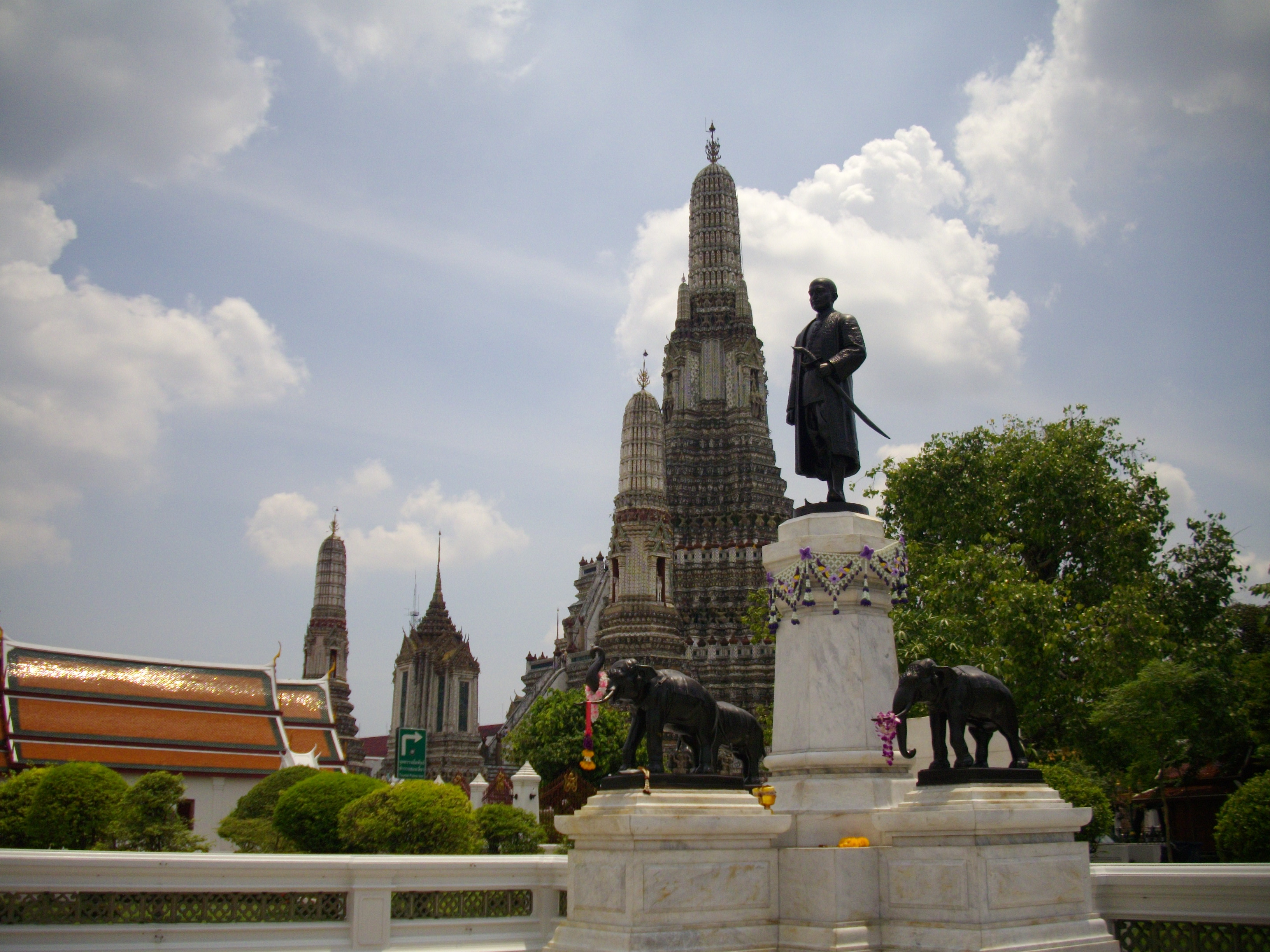 Statue of King Rama II in front of the Pagoda of Wat Arun, Bangkok.